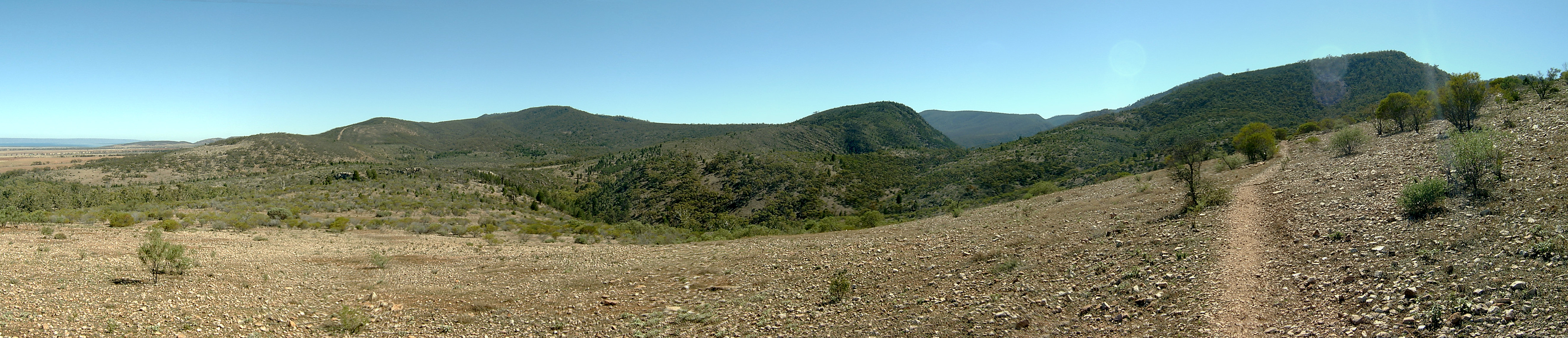 January 2007. Created with The Panorama Factory.